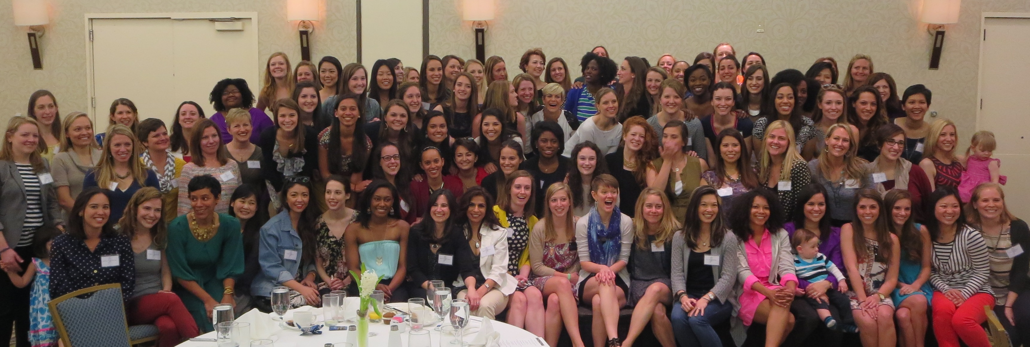 The Sils celebrate 25 years of "shockingly good" a cappella music!